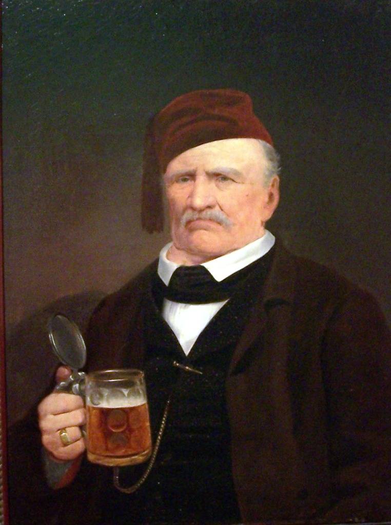 Franz Xavier Wührer